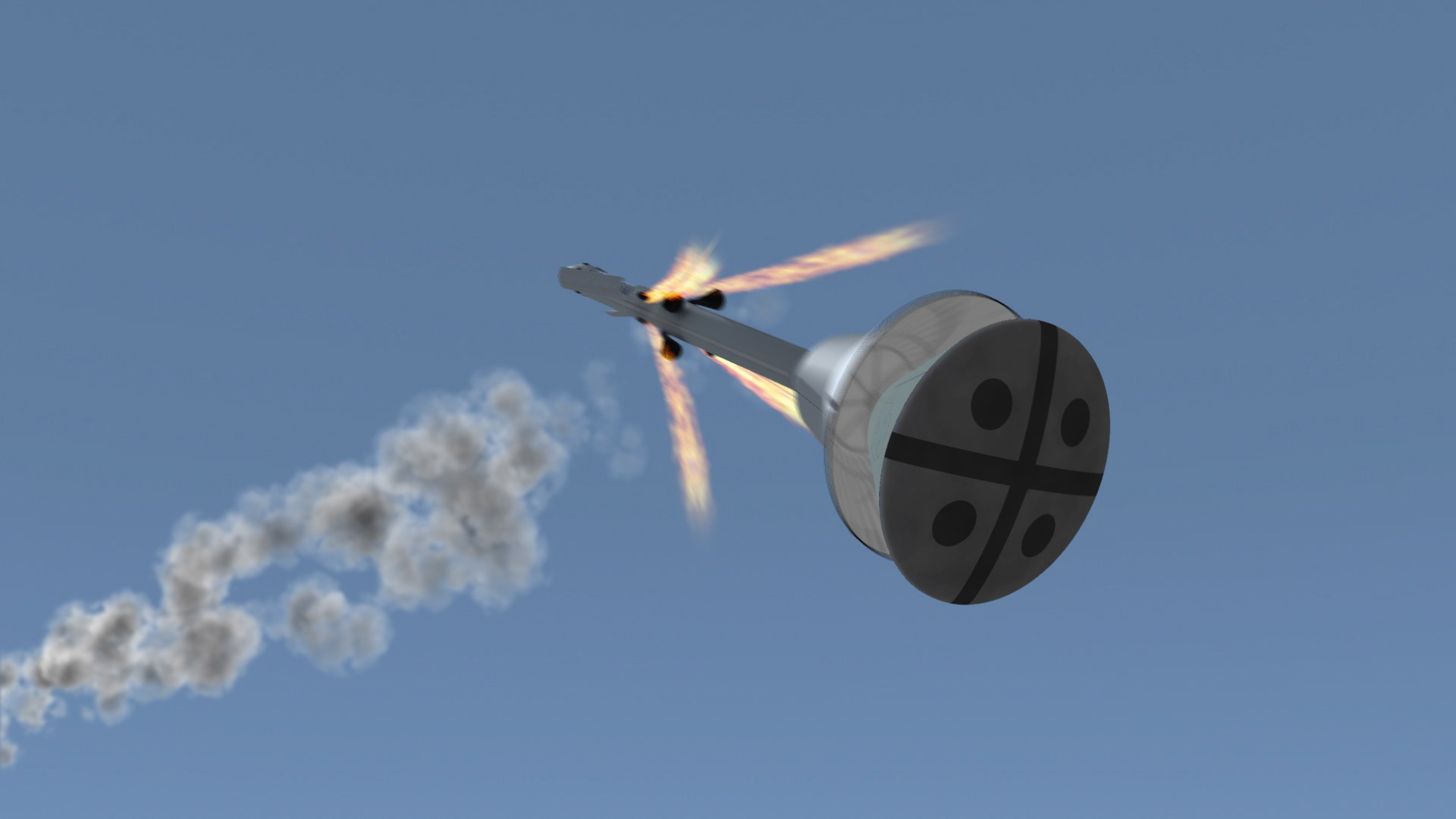 NASA's Constellation Program continues work on the development of the Orion spacecraft that will return humans to the moon and prepare for future voyages to Mars and other destinations in our solar system. This one-of-a-series artist's rendering represents a concept of the abort flight tests of the Launch Abort System (LAS) at the White Sands Missile Range in New Mexico. This image shows the LAS separating from the Orion crew module.